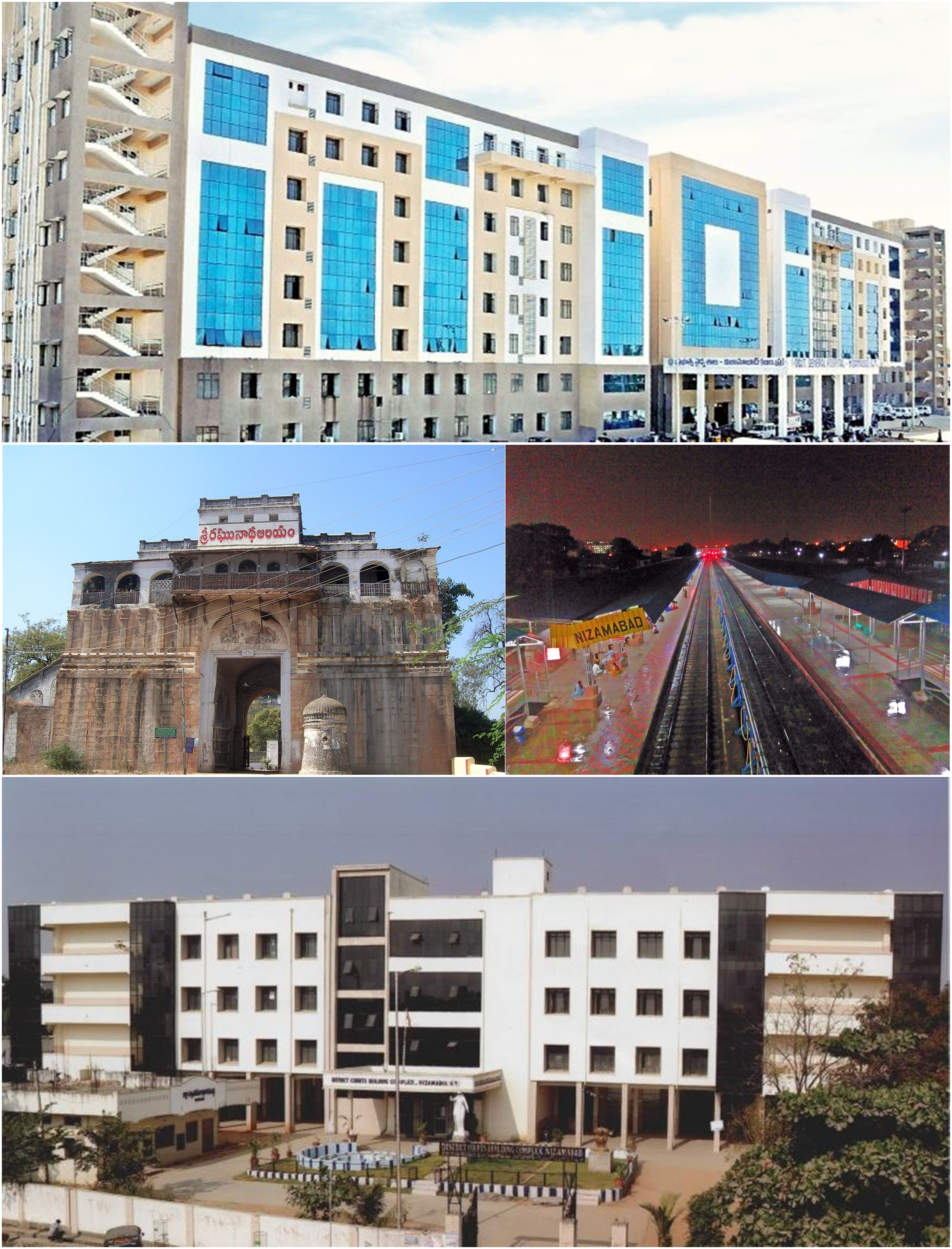 Top : District Government Hospital, Nizamabad Center Left : Nizamabad Fort Entrance Center Right : Nizamabad Railway Station Bottom : Nizamabad District Court